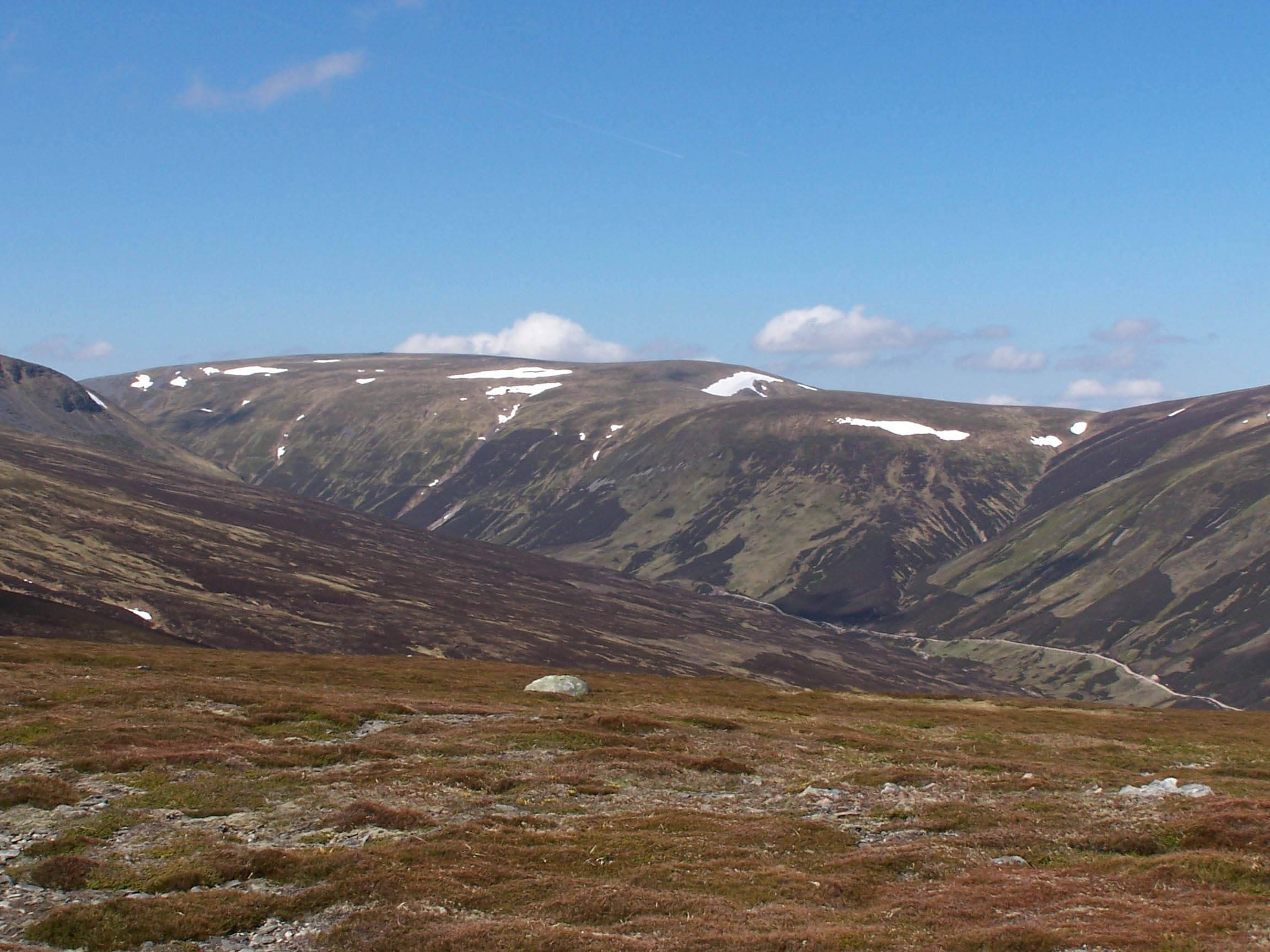 The mountain Beinn Udlamain seen from the east across Coire Dhomhain.